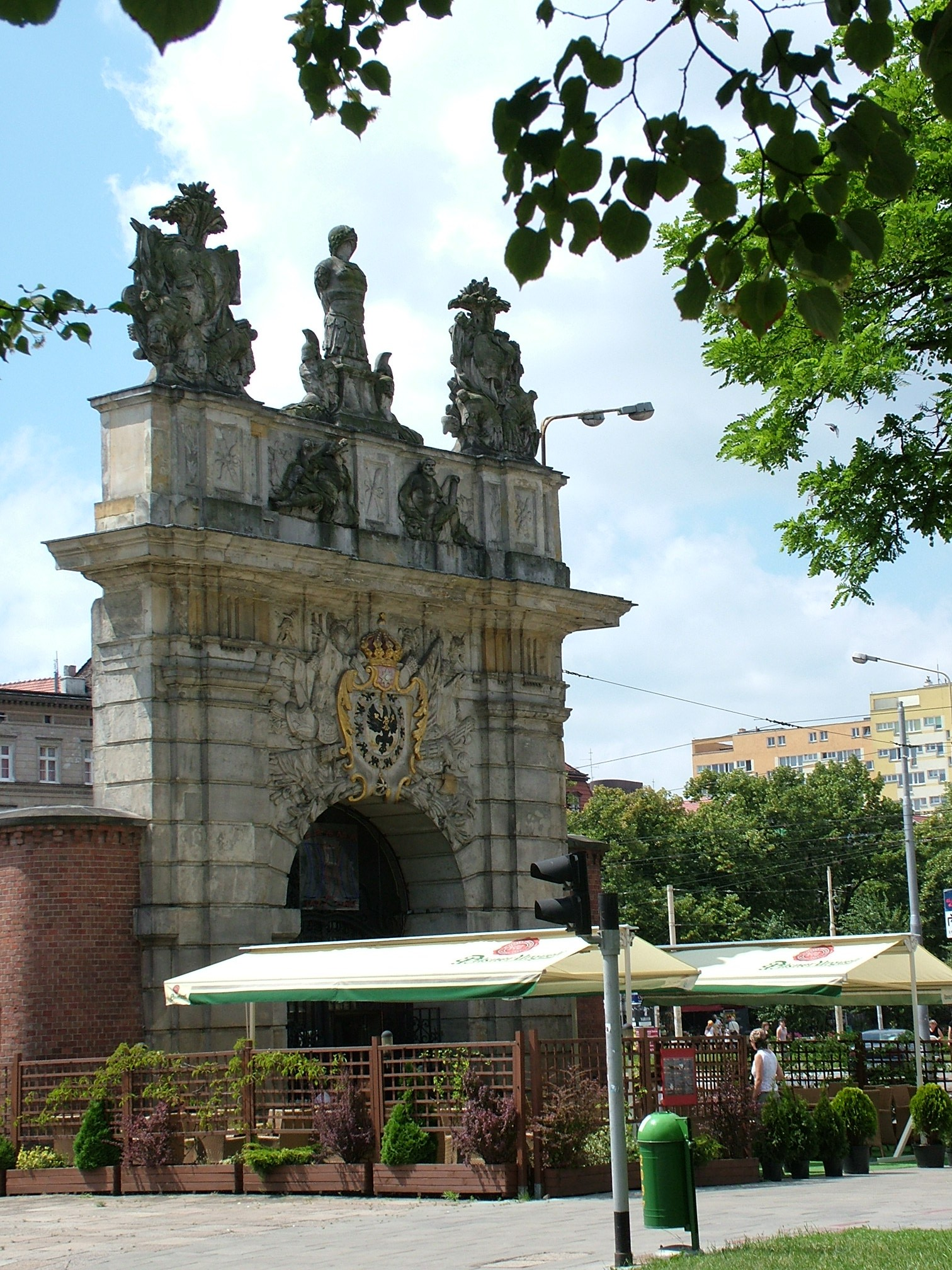 King's Gate in Szczecin.